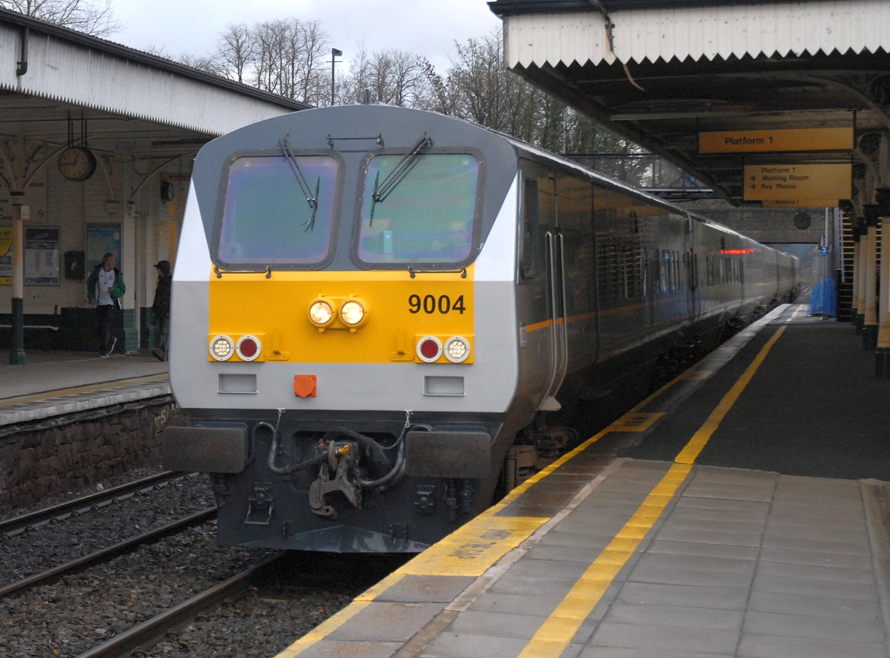 1230 Belfast to Dublin Enterprise train passes through Lisburn station